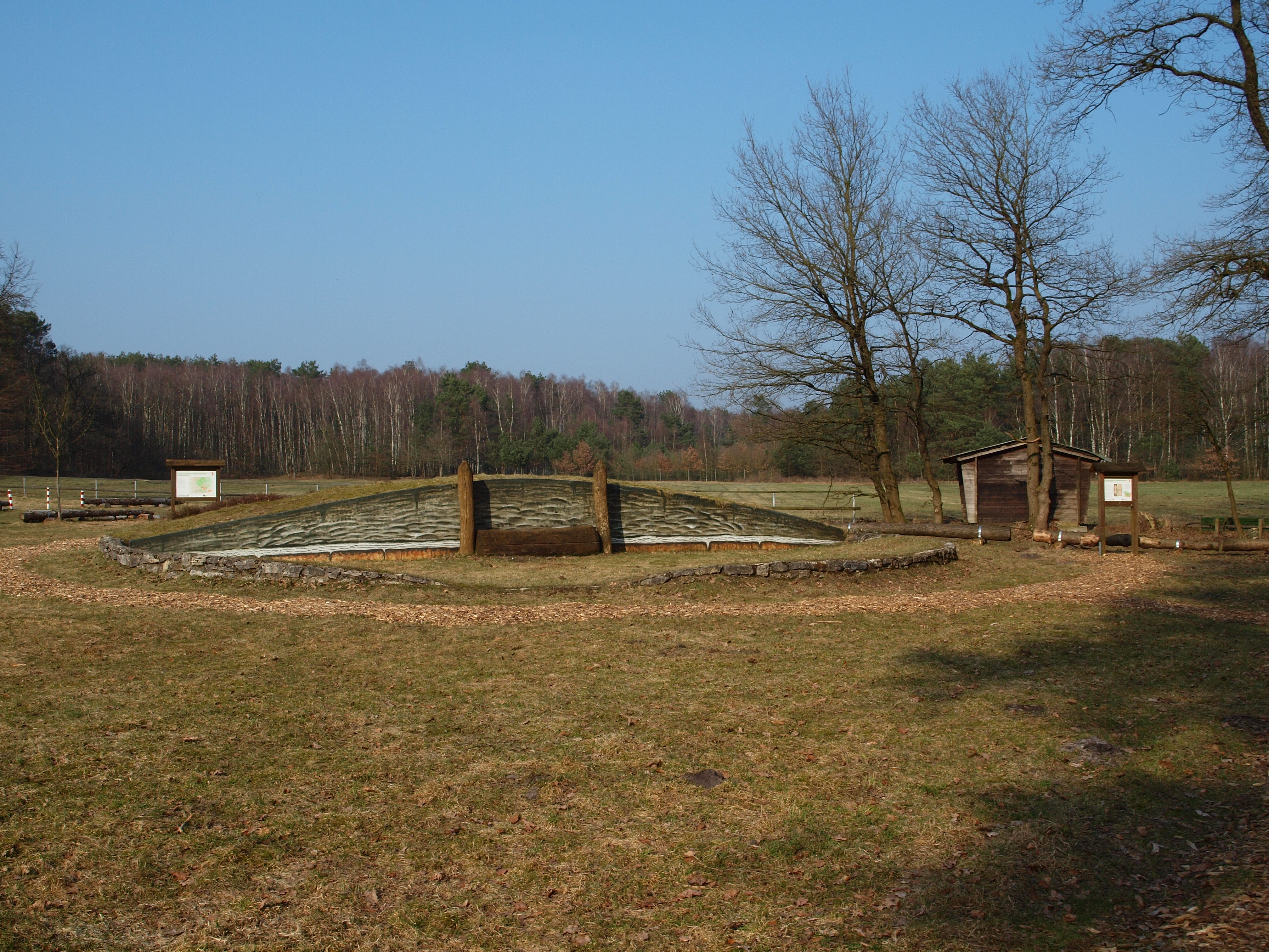 Tumulus in the archaeological teaching path in Oesterholz-Haustenbeck